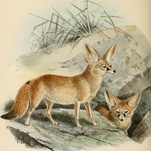 Engraving of a fennec fox by J. G. Keulemans